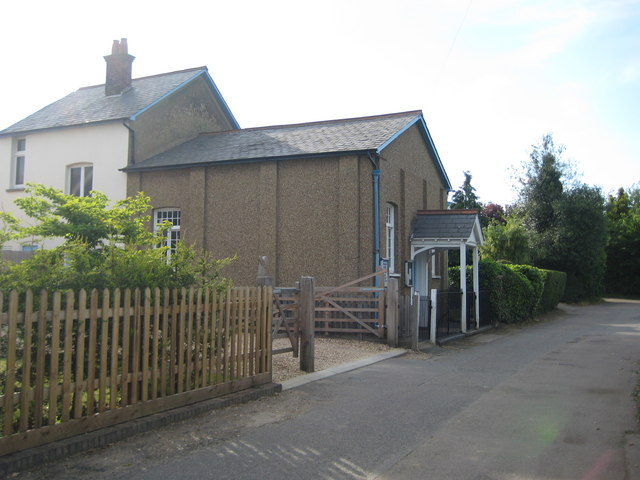 Sleapshyde Methodist Church Sleapshyde Methodist Church was originally a Wesleyan Methodist Chapel built around 1840. It is tucked away down a no through road and opposite The Plough public house.